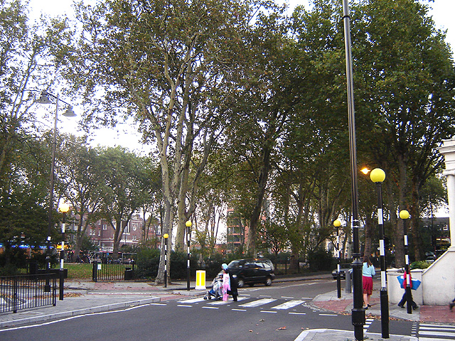 Newington Green, Mildmay, Islington, London. 15 October 2005. Photographer: Fin Fahey.